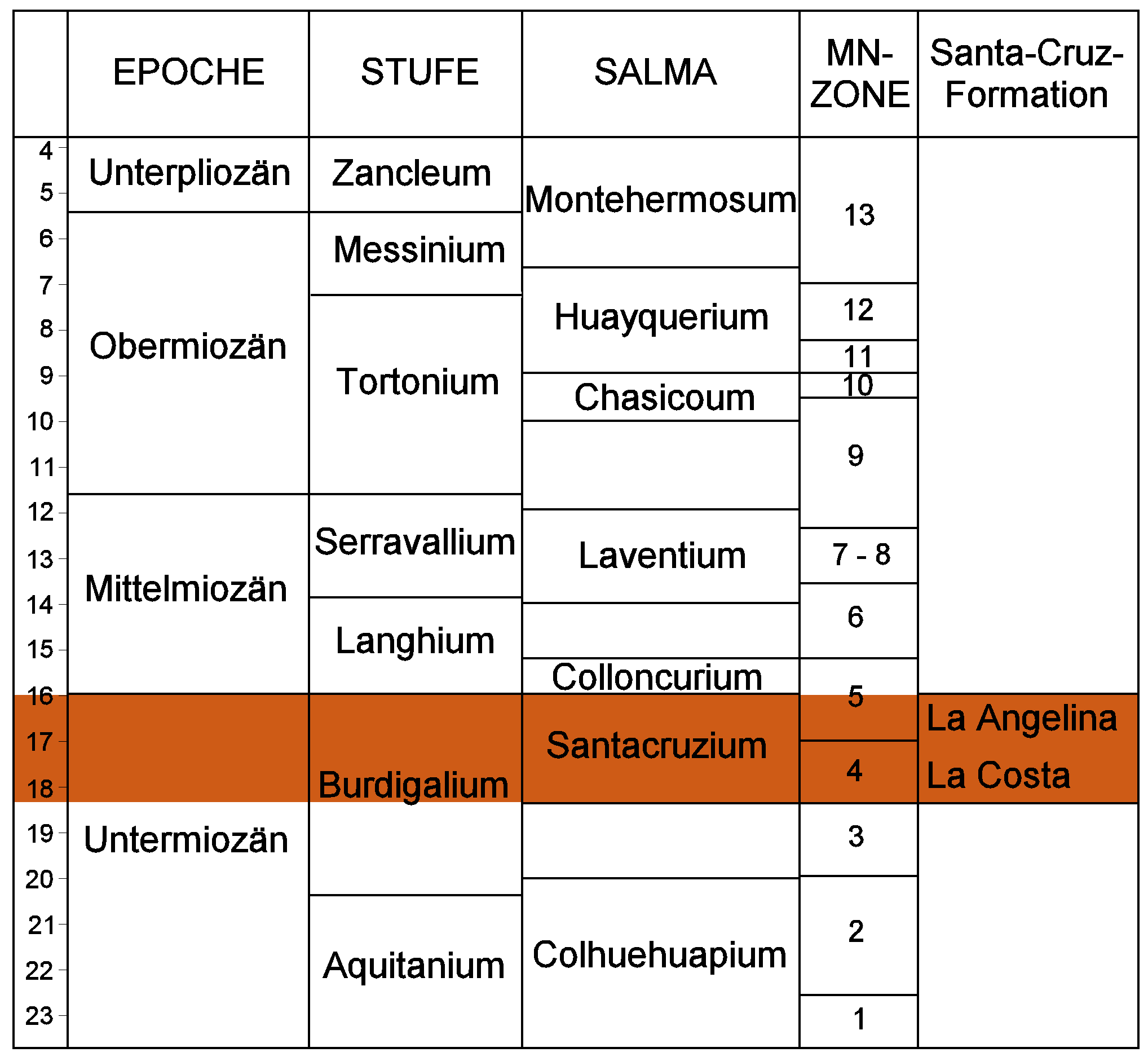 Stratigraphical position of Santacrucian and Santa Cruz Formation according to SALMA after Sergio F. Vizcaíno, Richard F. Kay and M. Susana Bargo: Background for a paleoecological study of the Santa Cruz Formation (late Early Miocene) on the Antlantic Coast of Patagonia. In: Sergio F. Vizcaíno, Richard F. Kay and M. Susana Bargo (eds.): Early Miocene paleobiology in Patagonia: High-latitude paleocommunities of the Santa Cruz Formation. Cambridge University Press, New York, 2012, pp. 1–22 (p. 5) Stratigraphische Position des Santacrucian und der Santa-Cruz-Formation innerhalb der SALMA nach Sergio F. Vizcaíno, Richard F. Kay und M. Susana Bargo: Background for a paleoecological study of the Santa Cruz Formation (late Early Miocene) on the Antlantic Coast of Patagonia. In: Sergio F. Vizcaíno, Richard F. Kay und M. Susana Bargo (Hrsg.): Early Miocene paleobiology in Patagonia: High-latitude paleocommunities of the Santa Cruz Formation. Cambridge University Press, New York, 2012, S. 1–22 (S. 5)